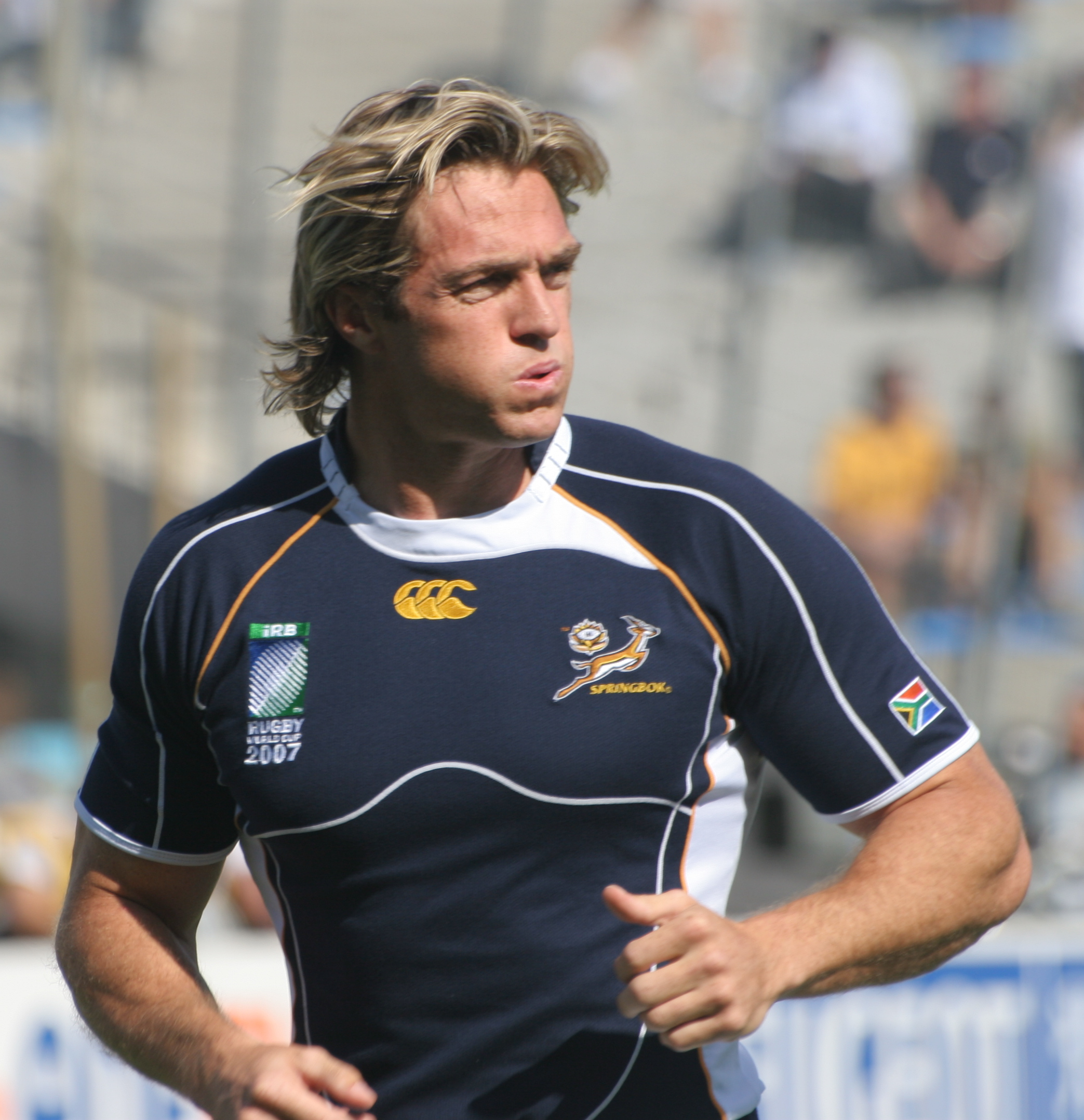 South African rugby union player Percy Montgomery at the warm-up before 2007 Rugby World Cup quater-final against Fiji, that took place in Marseille.